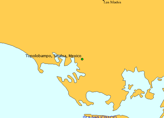 A map I made of Topolobambo, Sinola in western Mexico.